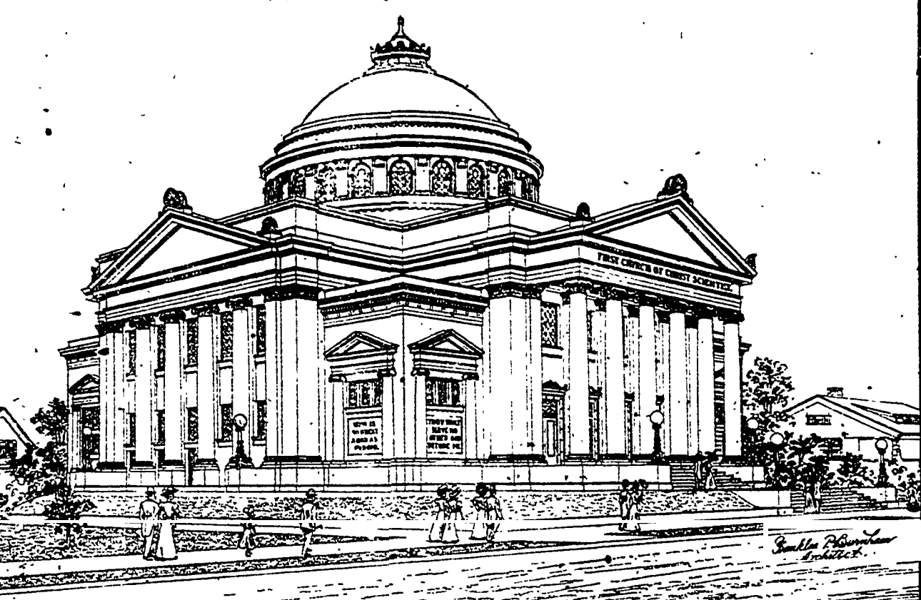 Architect Franklin Pierce Burnham drawing of Pasadena First Christian Science Church as published in 1909 before it was built.